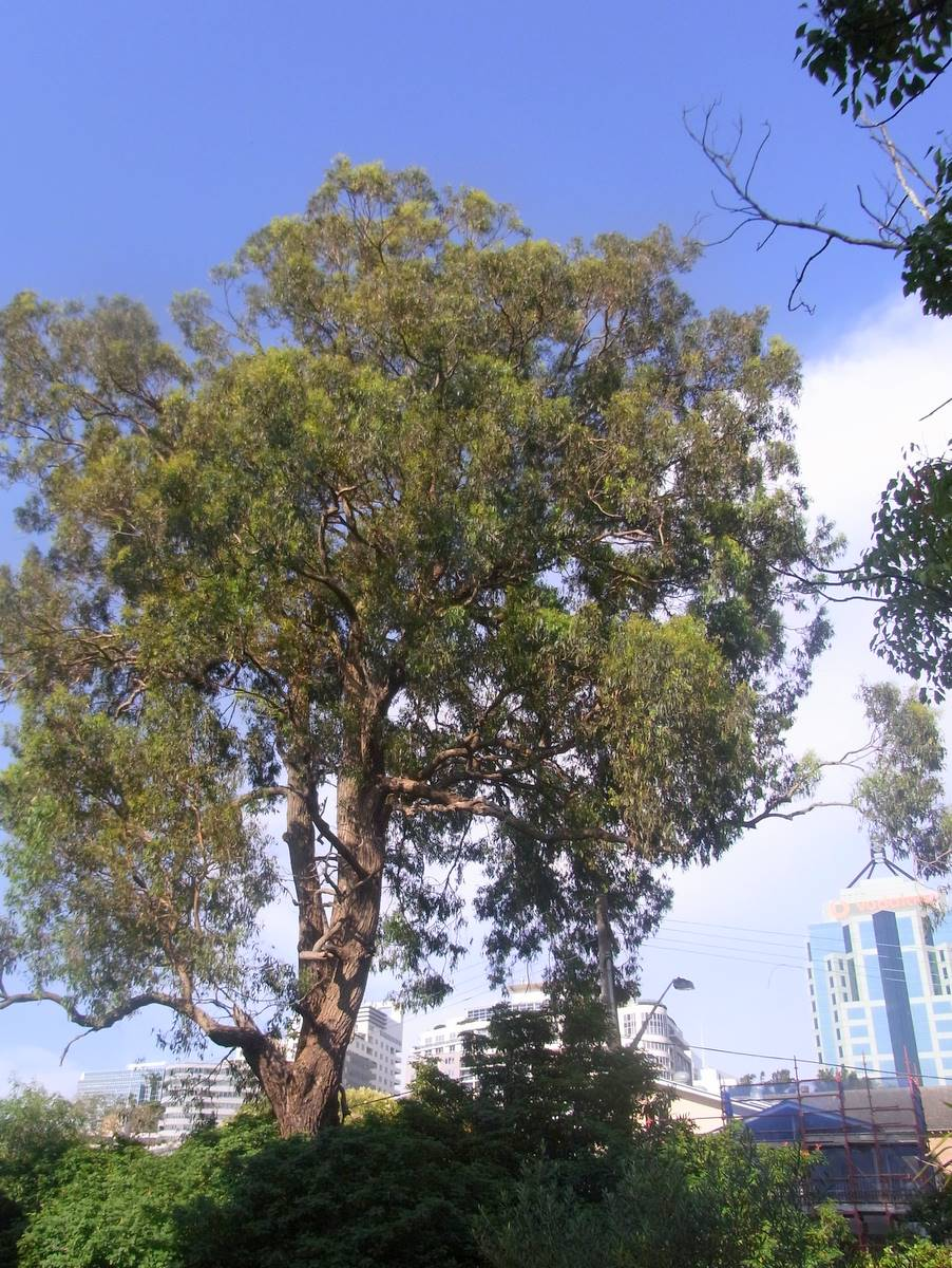 Eucalyptus paniculata, Chatswood, NSW, Australia - possibly an original forest tree surrounded by suburbia. Allegedly poisoned and killed illegally in 2017